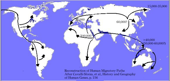 redrawn diagram of postulated human migration paths